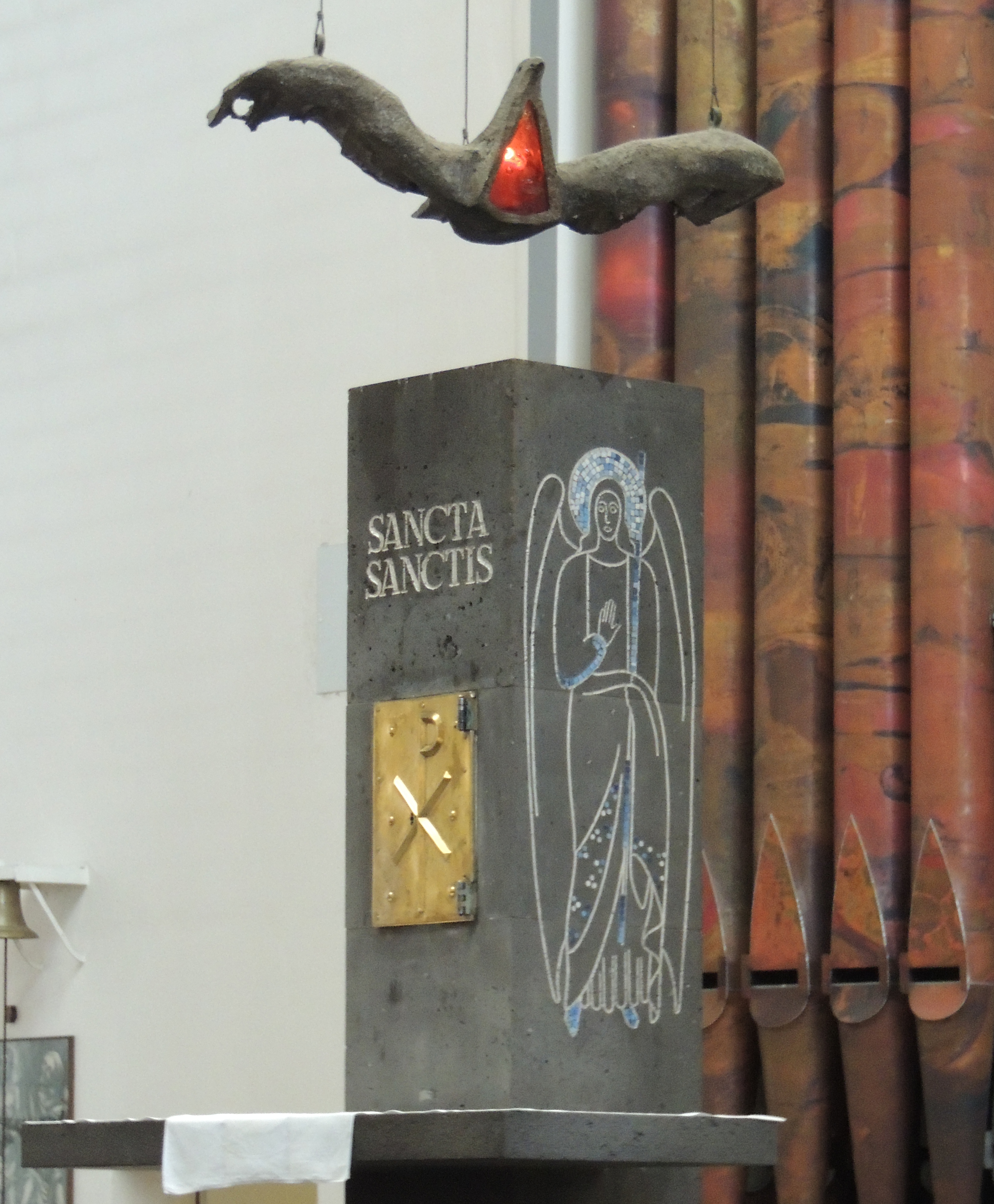 Tabernacle with sanctuary lamp in the Heilig-Geist-Kirche in Frankfurt am Main-Riederwald